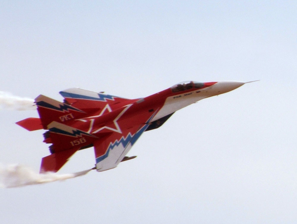 MiG-29M-OVT displaying at Farnborough, 2006